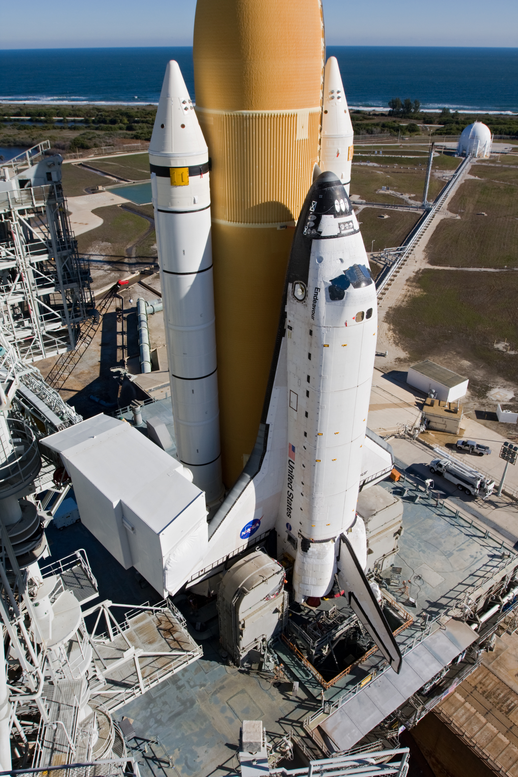 CAPE CANAVERAL, Fla. – At NASA's Kennedy Space Center in Florida, a crawler-transporter positions the mobile launcher platform supporting space shuttle Endeavour over the flame trench on Launch Pad 39A. First motion on the 3.4-mile trip from the Vehicle Assembly Building, known as rollout, was at 4:13 a.m. EST Jan. 6. Endeavour was secure or "hard down" on the pad at 10:37 a.m. Rollout is a significant milestone in launch processing activities. The primary payload for the STS-130 mission is the International Space Station's Node 3, Tranquility, a pressurized module that will provide room for many of the station's life support systems. Attached to one end of Tranquility is a cupola, a unique work area with six windows on its sides and one on top. The cupola resembles a circular bay window and will provide a vastly improved view of the station's exterior. The multi-directional view will allow the crew to monitor spacewalks and docking operations, as well as provide a spectacular view of Earth and other celestial objects. The module was built in Turin, Italy, by Thales Alenia Space for the European Space Agency. Endeavour's STS-130 launch is targeted for 4:39 a.m. EST Feb. 7. For information on the STS-130 mission and crew, visit